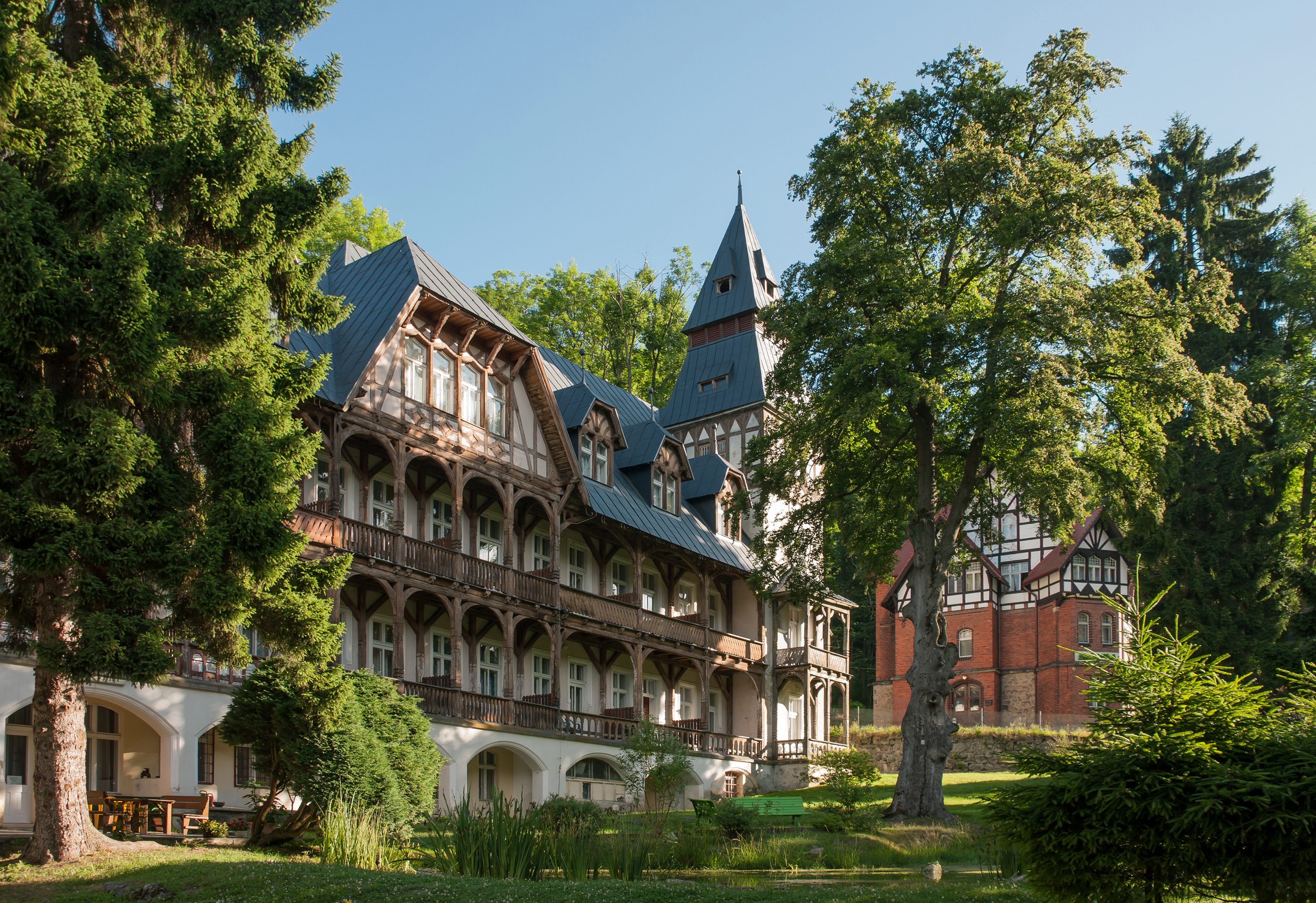 Villa Gigant in Międzygórze